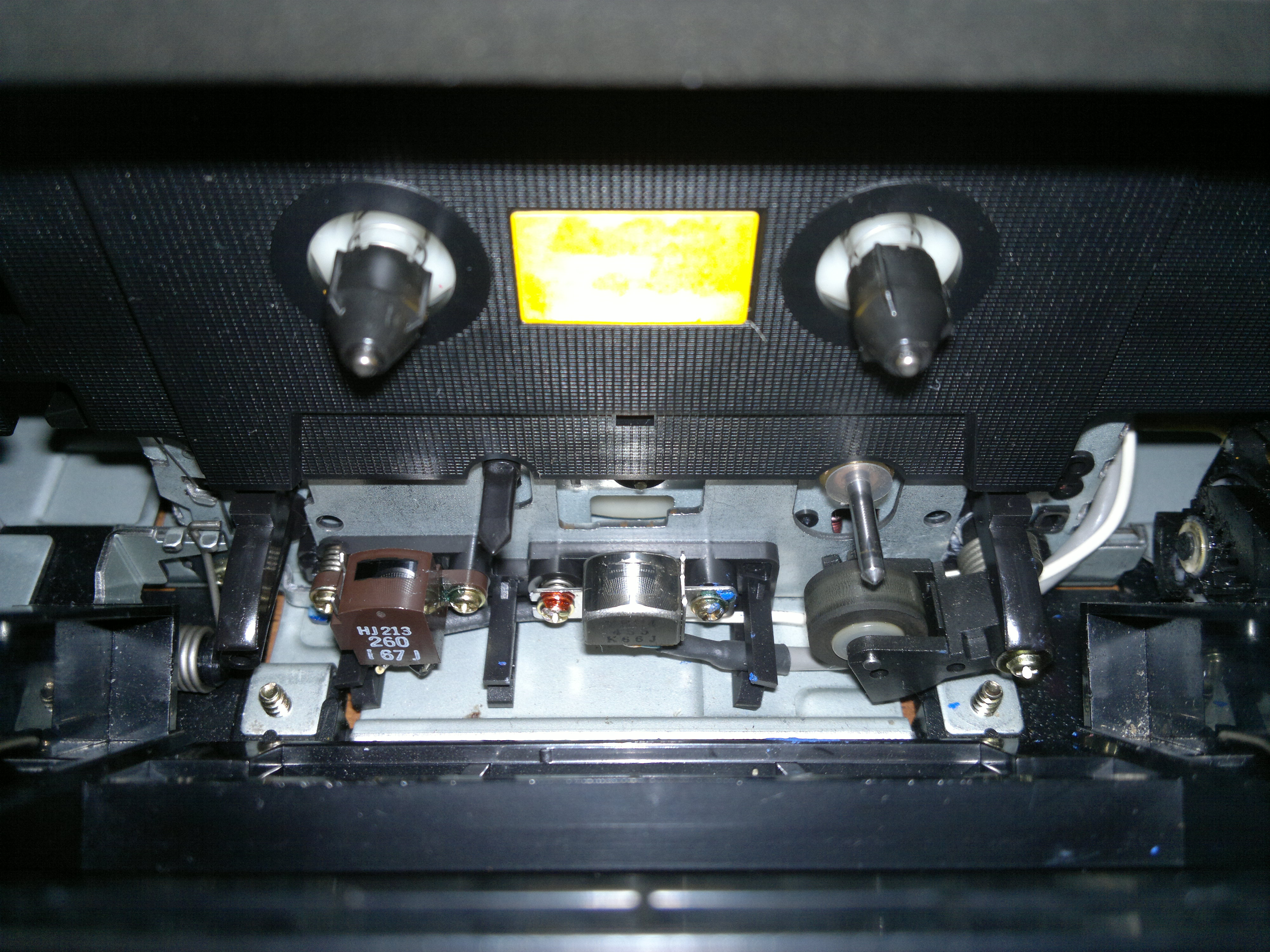 Technics RS-B405 cassette mechanism.